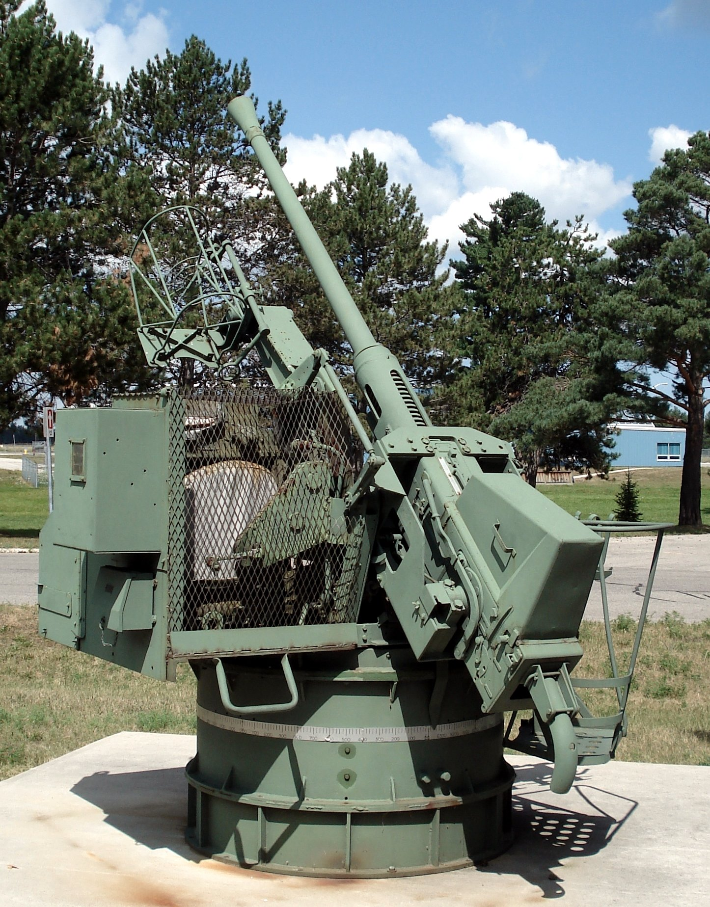 Canadian 40 mm Bofors gun on Boffin mounting. This example is displayed on the grounds of CFB Borden (Base Borden Military Museum). Photo taken on August 18, 2006. Source: Photo by me, User:Balcer.